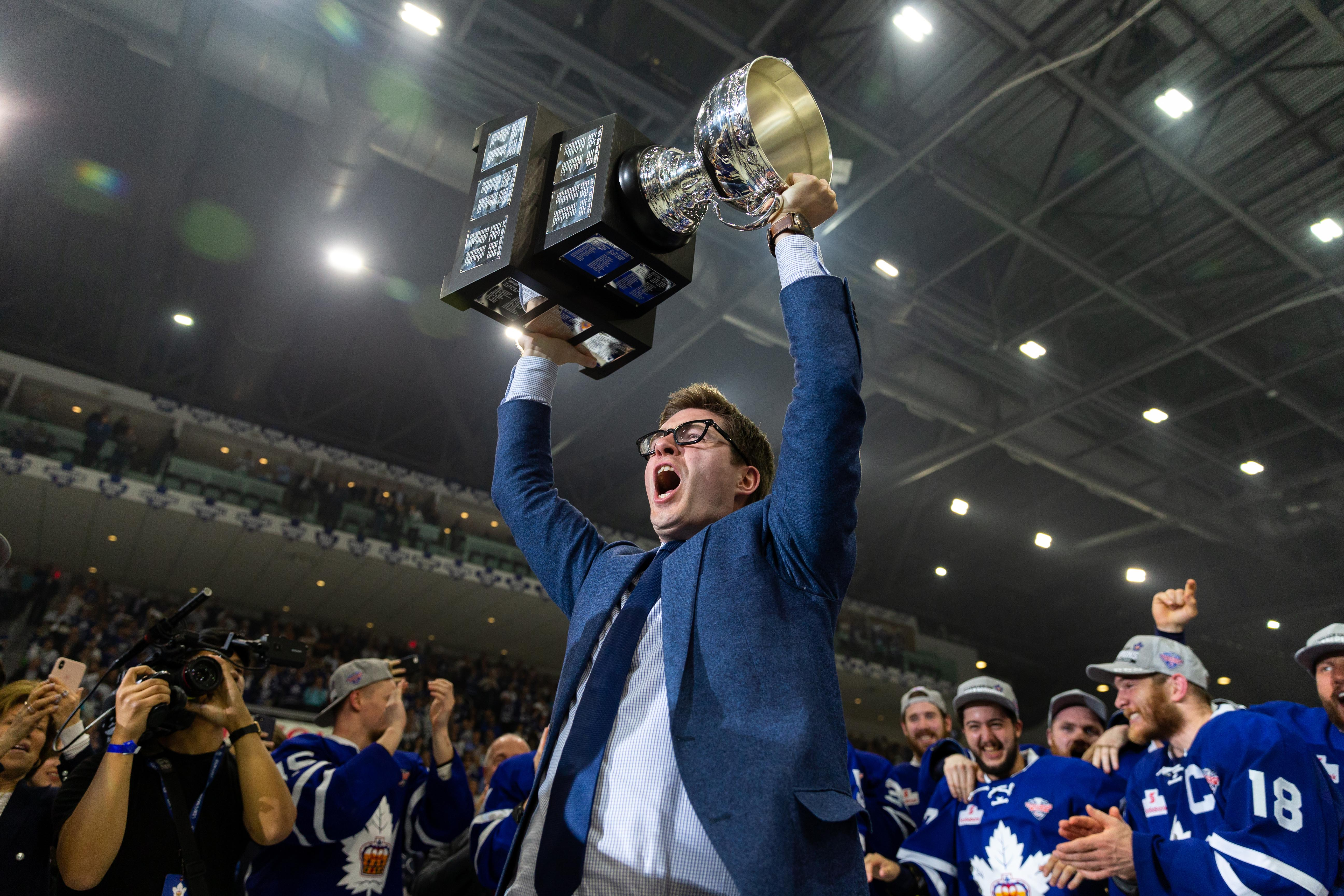 Photo: Thomas Skrlj/AHL